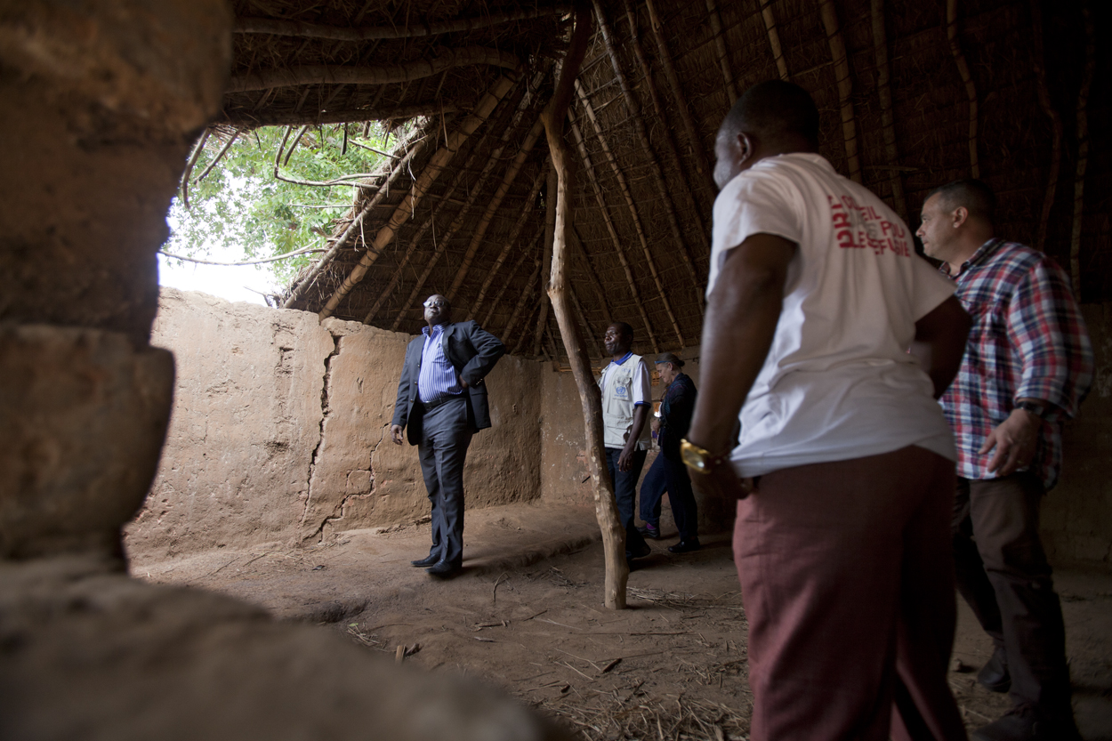 MONUSCO DSRSG Fidele Sarassoro and delegation of humanitarian experts in Gangala na Bodio near Dungu to humanitarian NGOs school and health projects, the 10th of May 2012. © MONUSCO/Sylvain Liechti